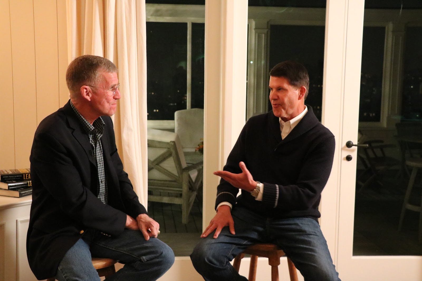 Keith Krach & General Stanley McChrystal talk